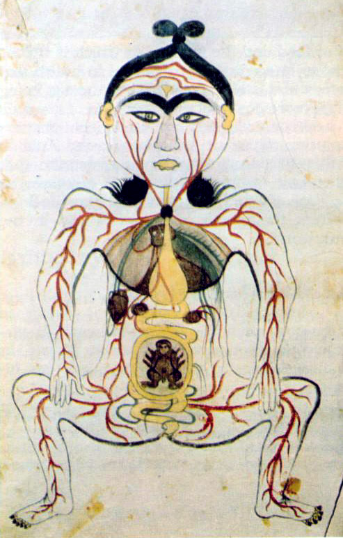 Image from 11th century AH (17th century AD) Persian manuscript by Mansur ibn Muhammad Ahmad at the Majles Library, Tehran.